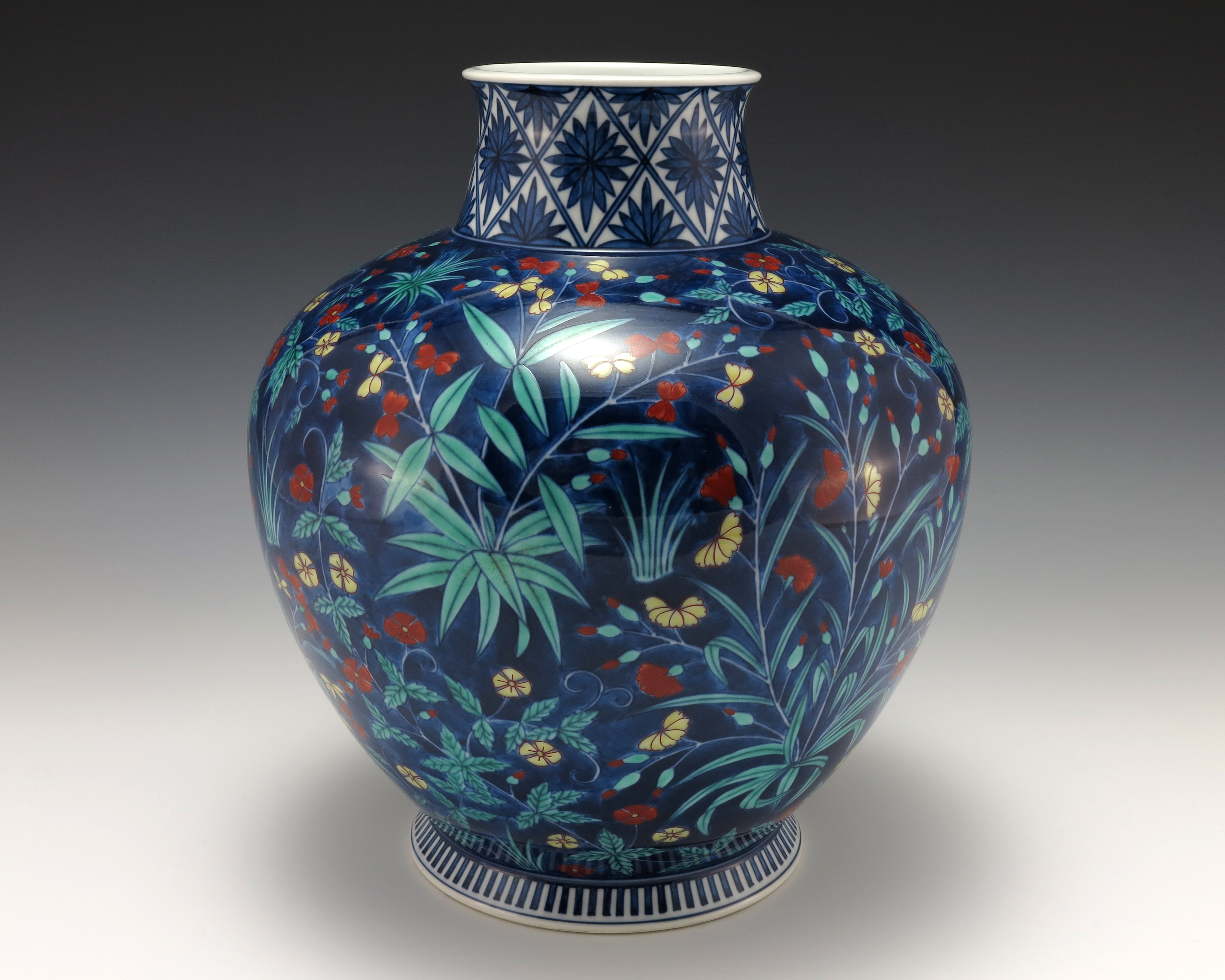 Blue porcelain vase decorated with red and yellow flowers and green foliage. There is a geometric design around the neck and foot rim. This vase was handmade by Imaemon Imaizumi XII, and presented to President Gerald R. Ford on the occasion of the Emperor and Empress’s state visit to the United States. It was the first time an Emperor and Empress of Japan had visited the United States. Gift of Emperor Hirohito and the Empress of Japan.